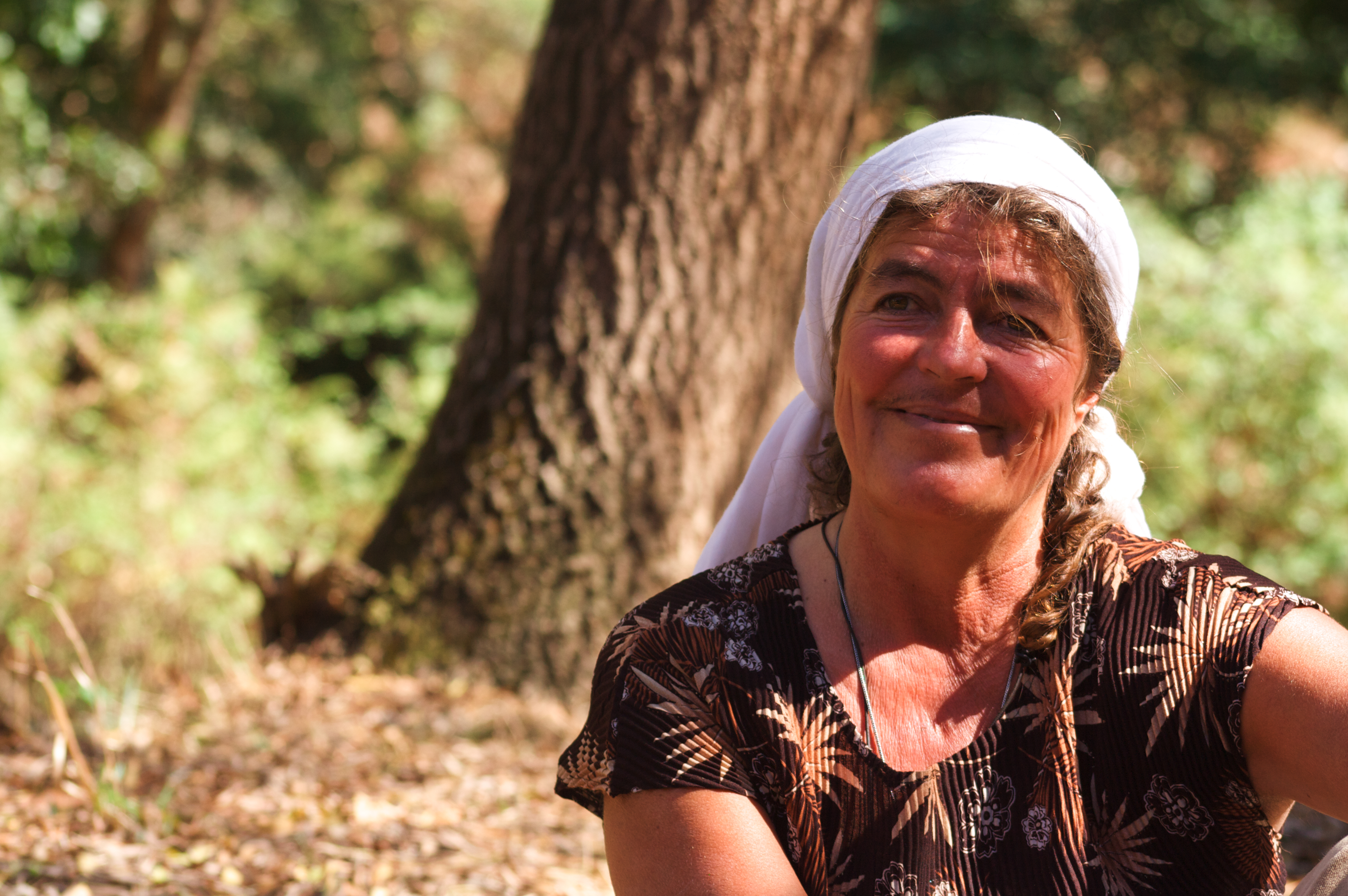 Portrait of Tamera Co-Founder Sabine Lichtenfels